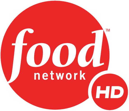 Food Network Canada HD logo